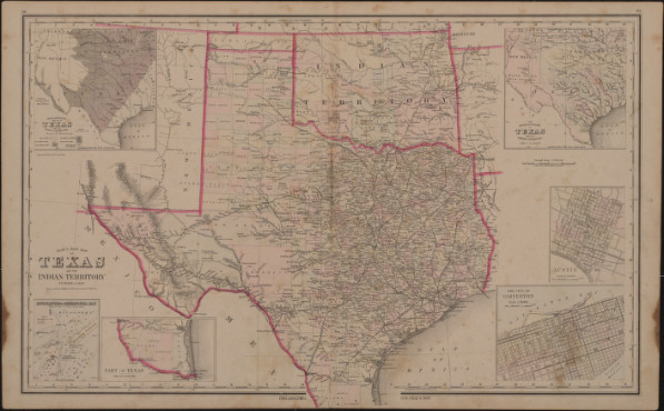 Gray's new map of Texas and Indian Territory; Oklahoma; New Mexico